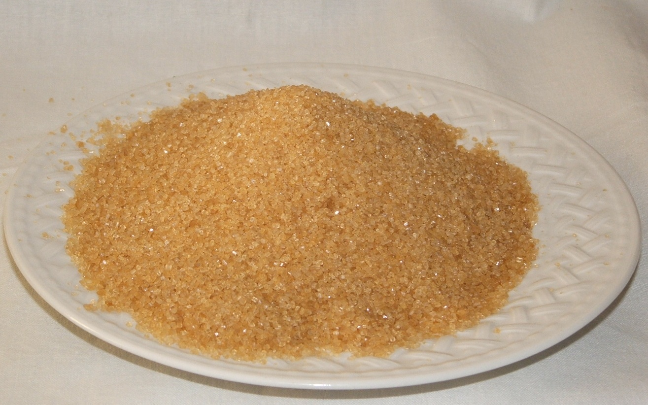 Demerara sugar